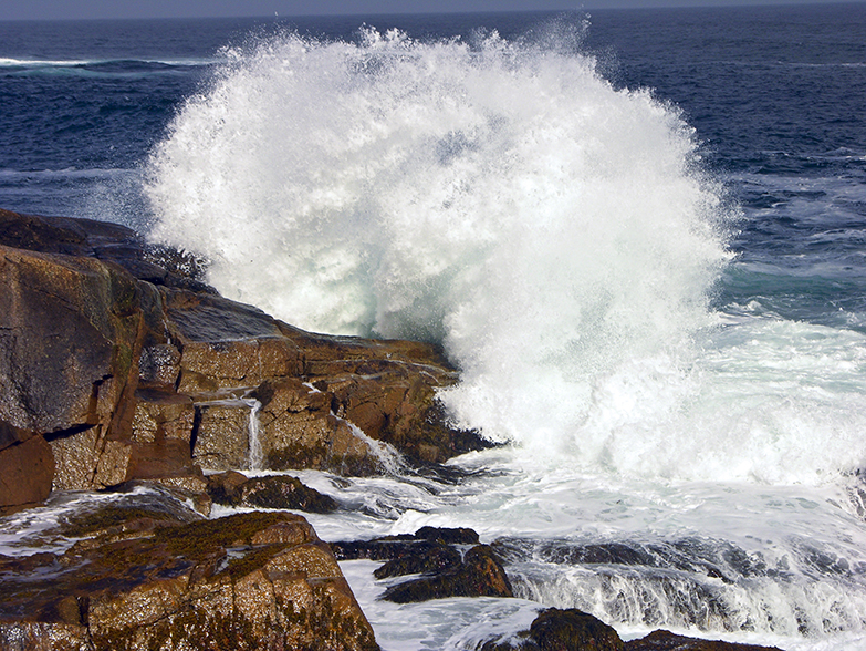 Waves crashing in Duncan's Cove